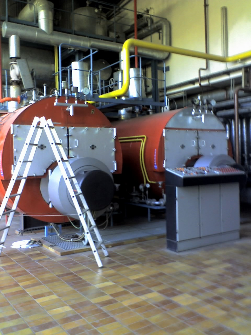 Two triple-firetube-smoketube Boiler Kreyòl ayisyen : Kotao